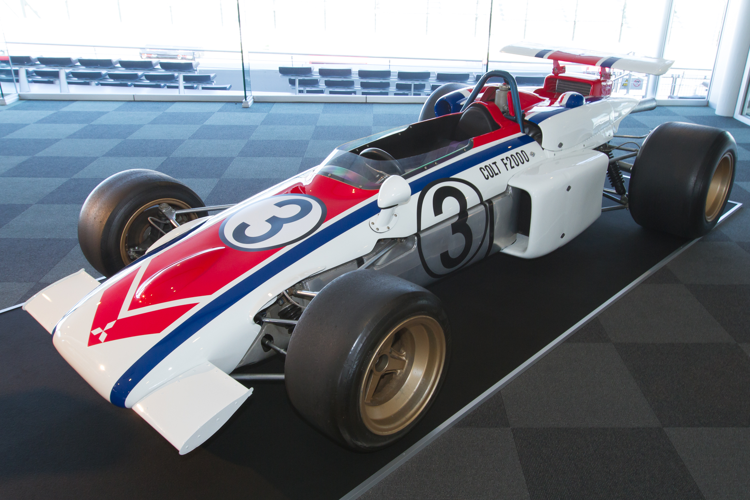 Suzuka Circuit 50th Anniversary "Time Machine Exhibition": 1971 Colt Formula 2000, the 1971 Japanese GP winning car